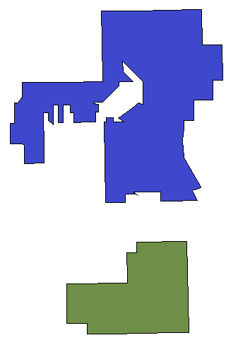 The boundaries of Chicago's 32nd ward in 1923 vs. 2019. Olive is 1923 and blue is 2019.